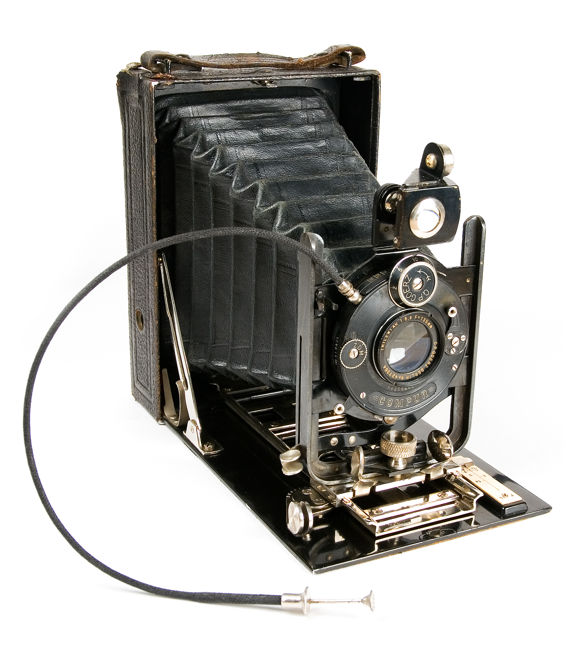 C.P.Goerz Taro-Tenax 9x12 with Trilentar f/6.8 135mm lens